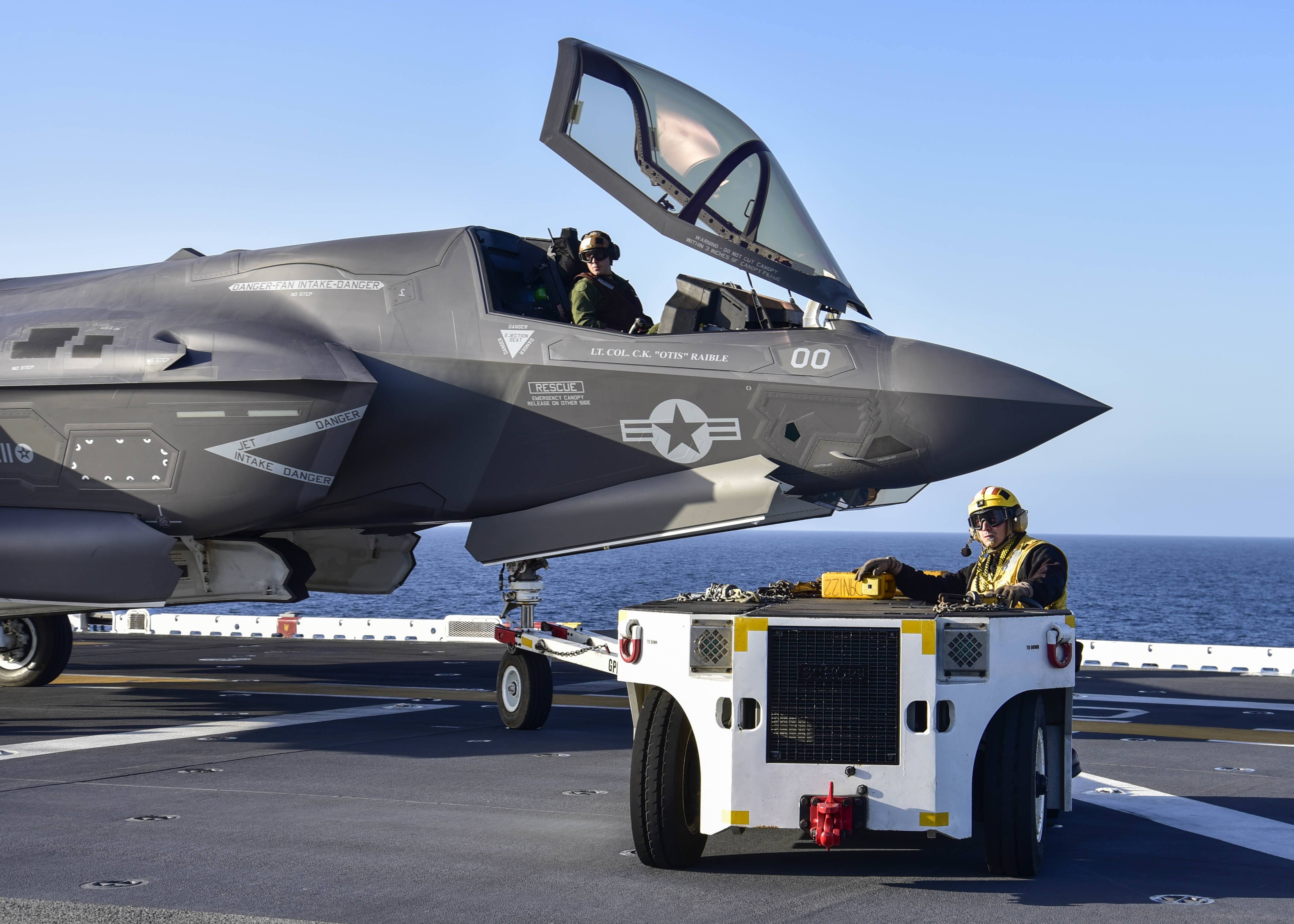 PACIFIC OCEAN (May 31, 2018) -- Chief Aviation Boatswain's Mate Jesse Gunderson transports an F-35B Lightning II attached to the “Avengers” of Marine Fighter Attack Squadron (VMFA) 211 using a P-25 tractor onboard Wasp-class amphibious assault ship USS Essex (LHD 2) during composite training unit exercise (COMPTUEX). COMPTUEX is the final pre-deployment exercise which certifies the combined Essex Amphibious Ready Group (ARG) and 13th Marine Expeditionary Unit’s (MEU) abilities to conduct military operations at sea and project power ashore during their upcoming deployment in summer of 2018. (RELEASED)